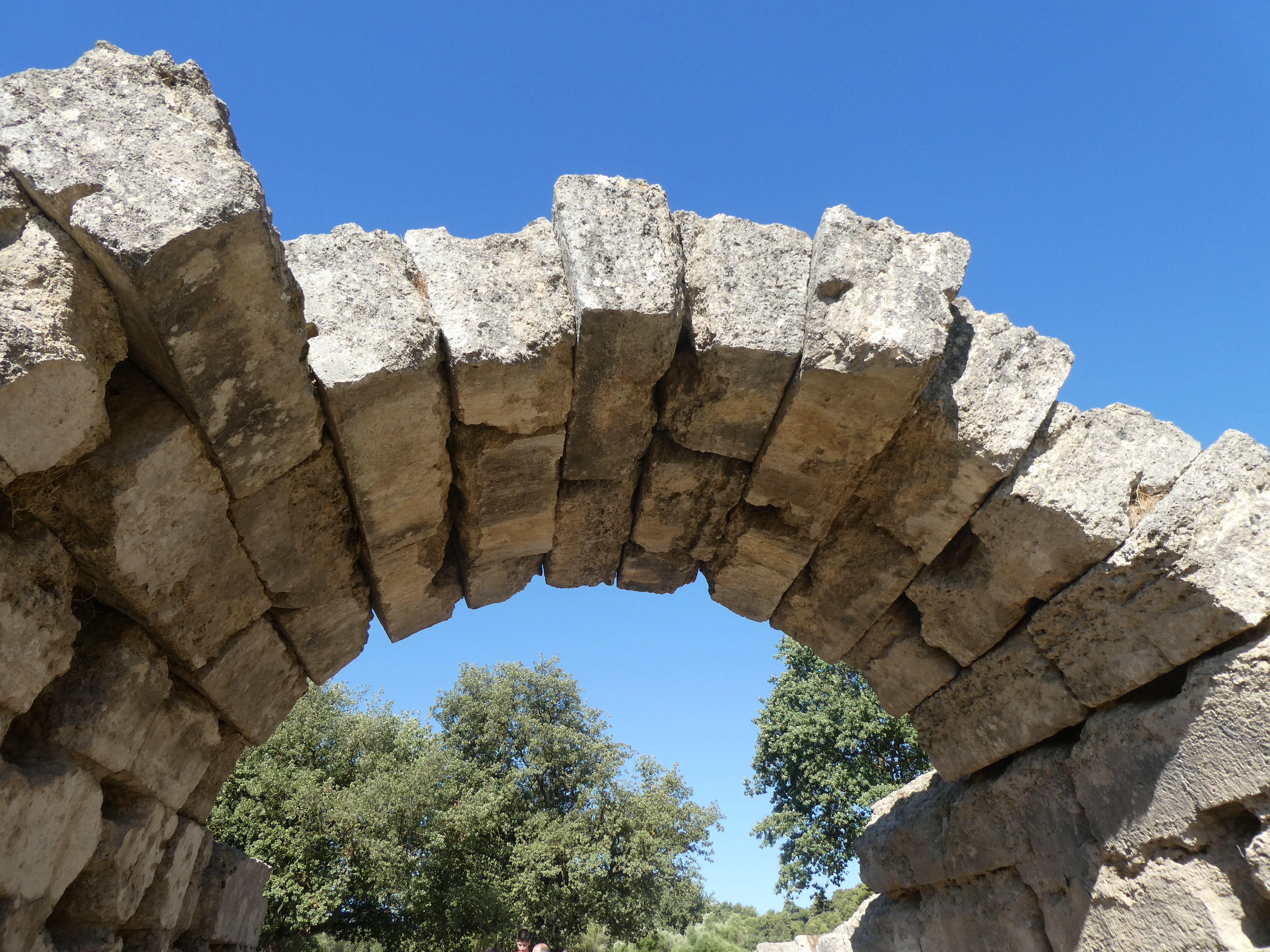 Part of the tunnel of the entrance of Olimpia stadium.